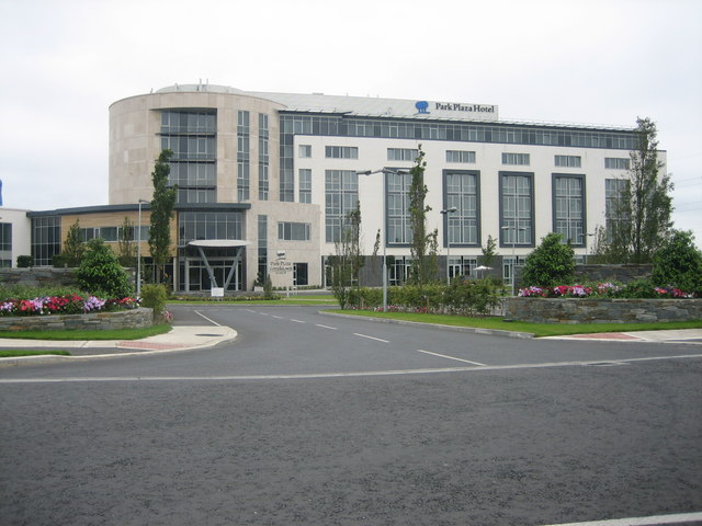 Park Plaza, Tyrrelstown